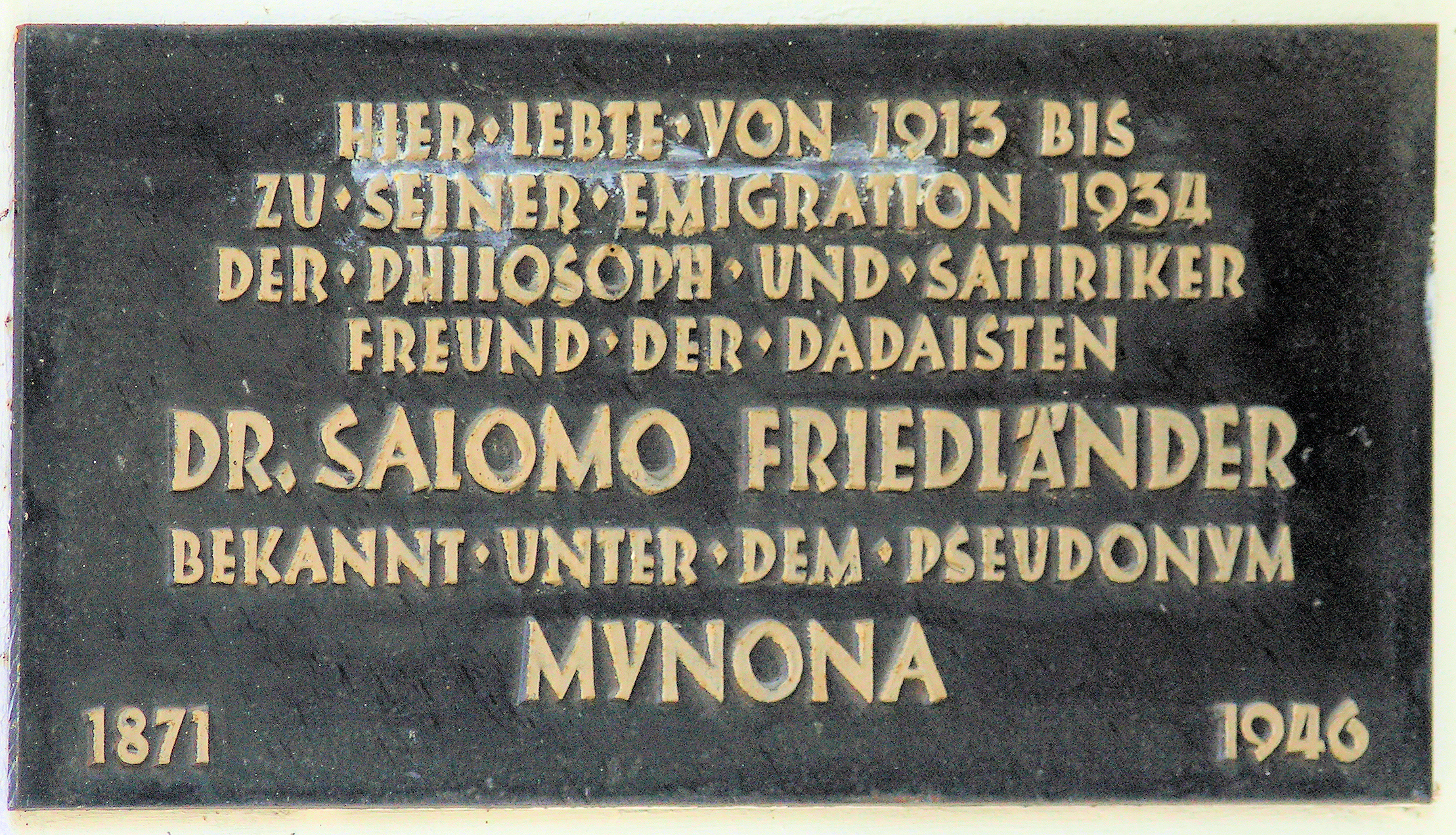 Memorial plaque, Salomo Friedlaender, Johann-Georg-Straße 20, Berlin-Halensee, Germany